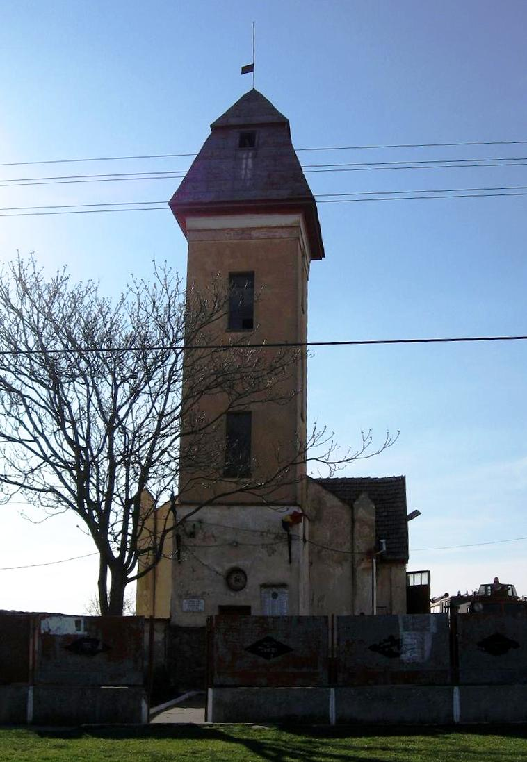 the tower of the fire brigade in Giarmata/Jahrmarkt, Romania